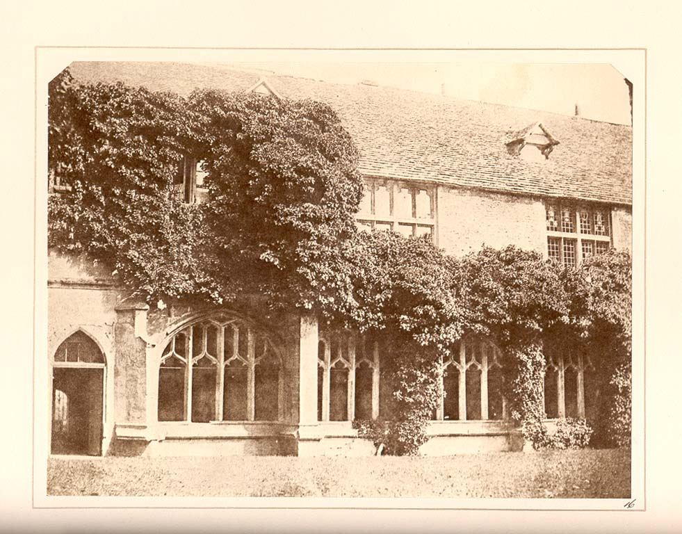 Cloisters of Lacock Abbey Plate 16